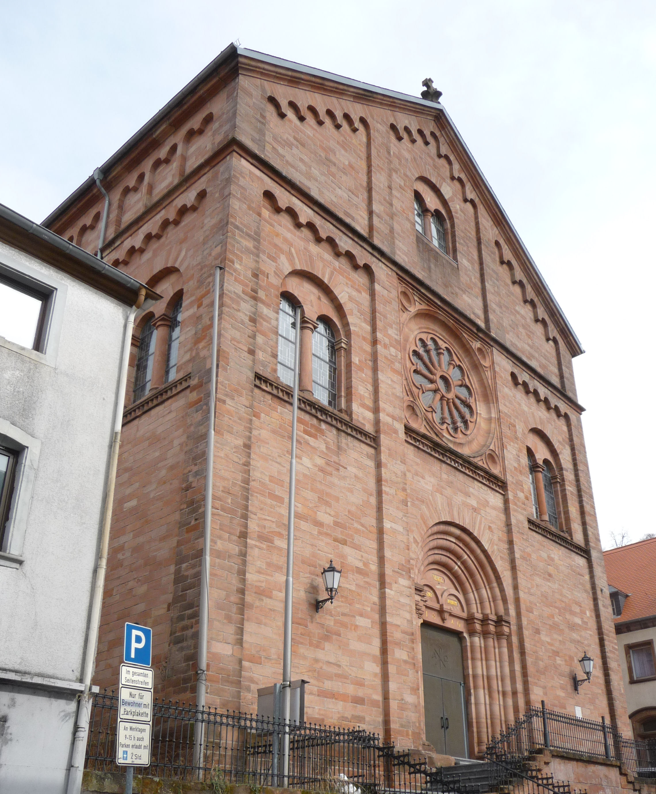 catholic church in Homburg, Germany